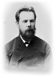 Photo-portrait of Alexander Nikolayevich Luppov